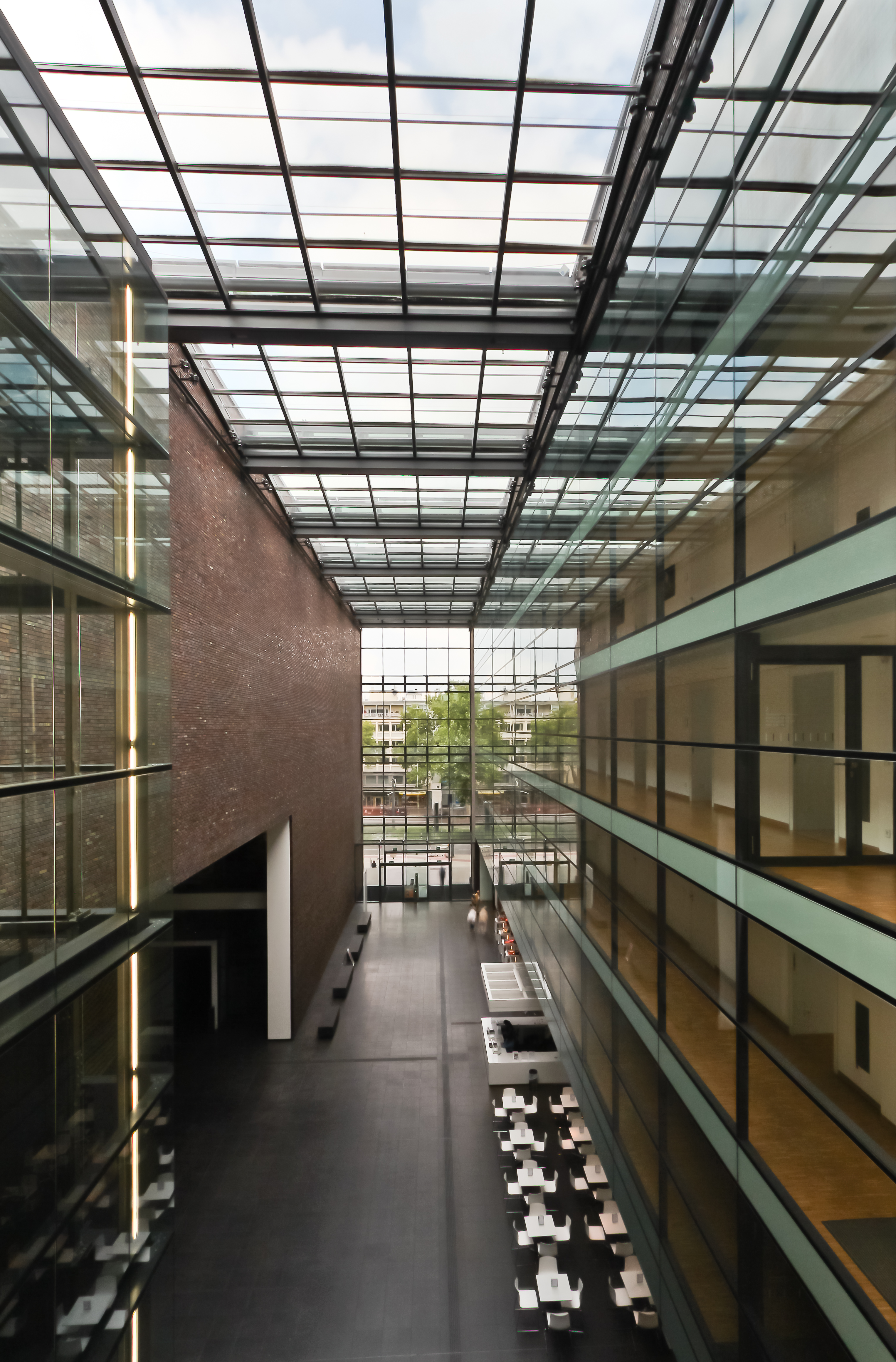 Rautenstrauch-Joest Museum Native nameRautenstrauch-Joest-MuseumLocationCäcilienstraße 29-3350667 Cologne, North Rhine-WestphaliaGermanyCoordinates50° 56′ 04.7″ N, 6° 57′ 01.91″ E Established1901Web Authority control : Q2133582 VIAF: 130110994 ISNI: 0000 0001 0660 2967 LCCN: n50047757 GND: 2018801-8 SUDOC: 029463408 WorldCat institution QS:P195,Q2133582